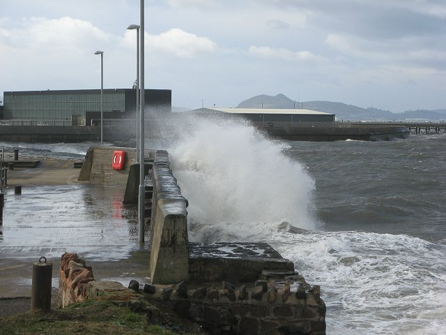 Cockenzie Harbour in a gale Big waves are unusual on this sheltered coast, but a northwesterly gale made things very rough with waves breaking over the harbour wall. Arthur's Seat un the distance.